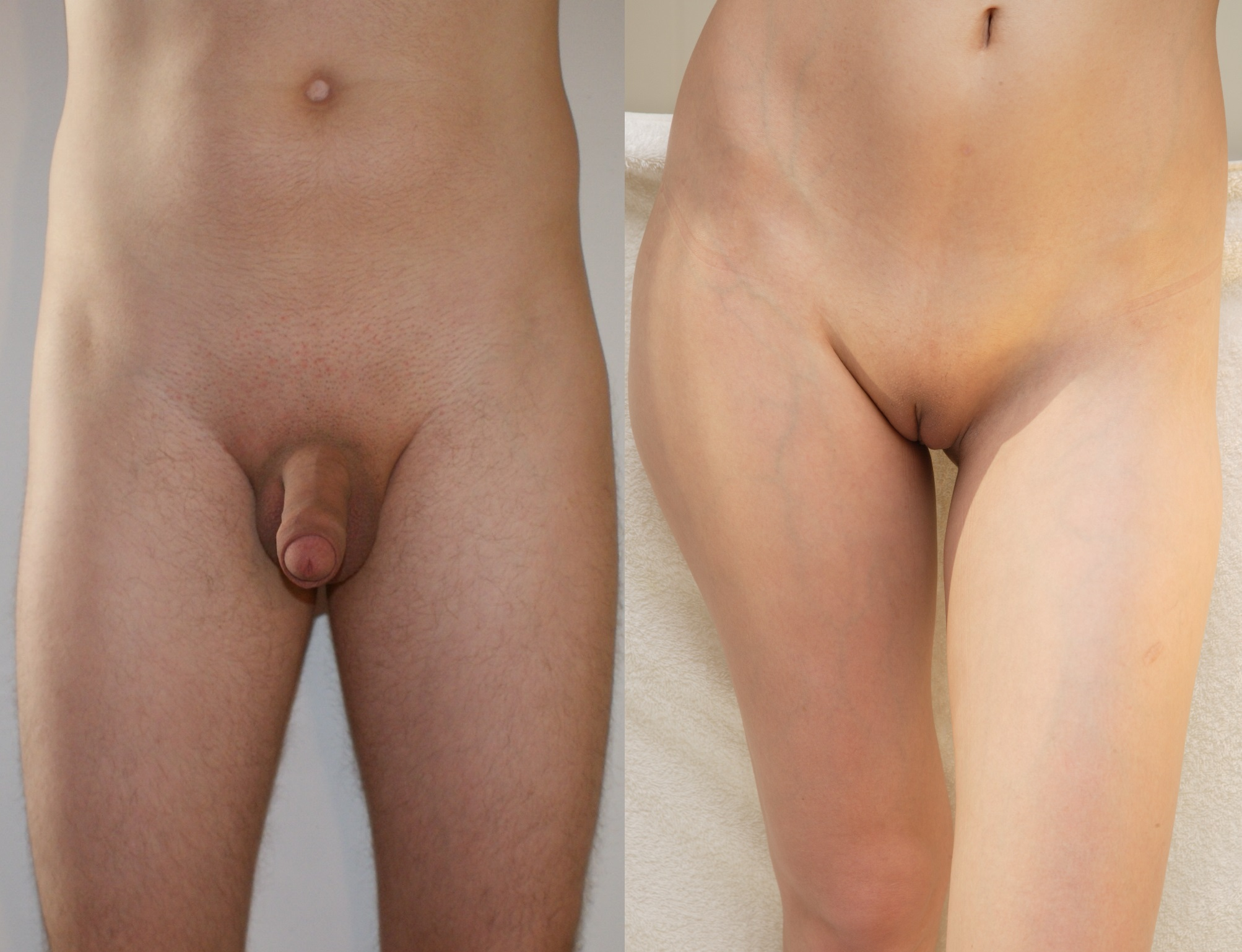 Shaved male and female genitalia. The penis is uncircumcised with the foreskin partially covering the glans.